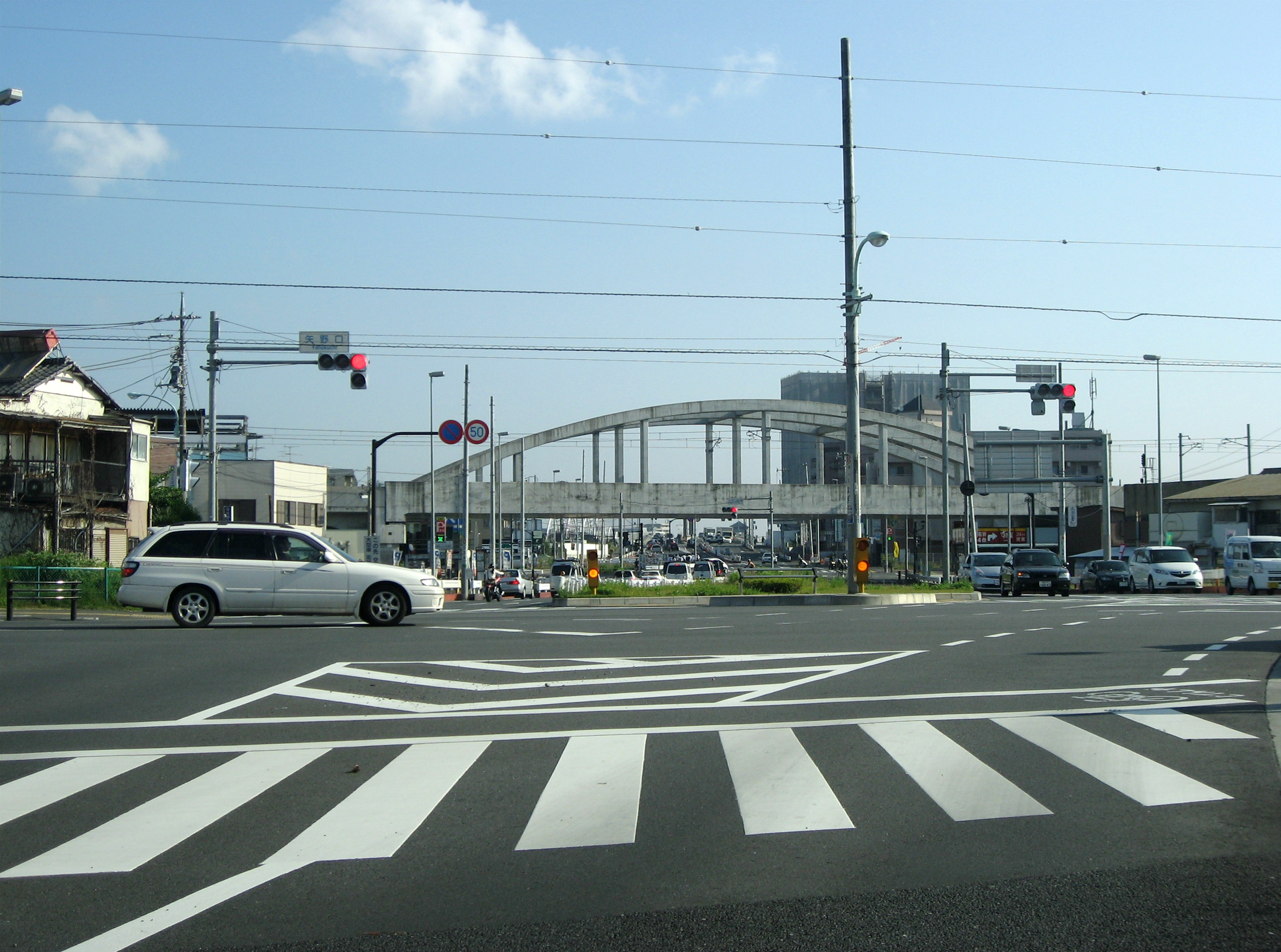 Yanokuchi Intersection in Inagi, Tokyo, Japan.